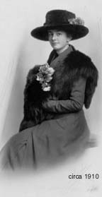 URL is